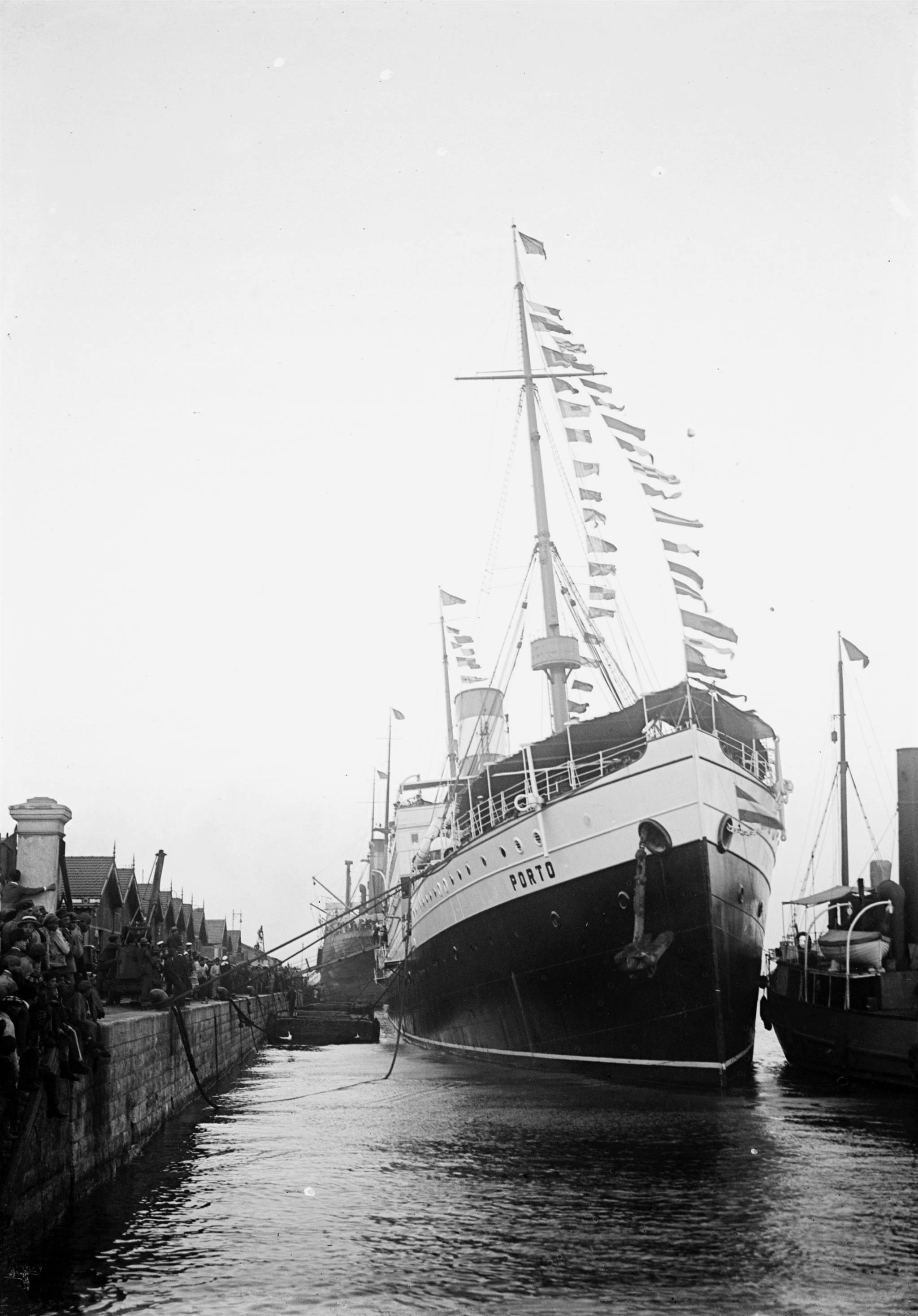 The Portuguese President of the Republic, António José de Almeida, boards the steamer Porto, headed for a state visit to Brasil.